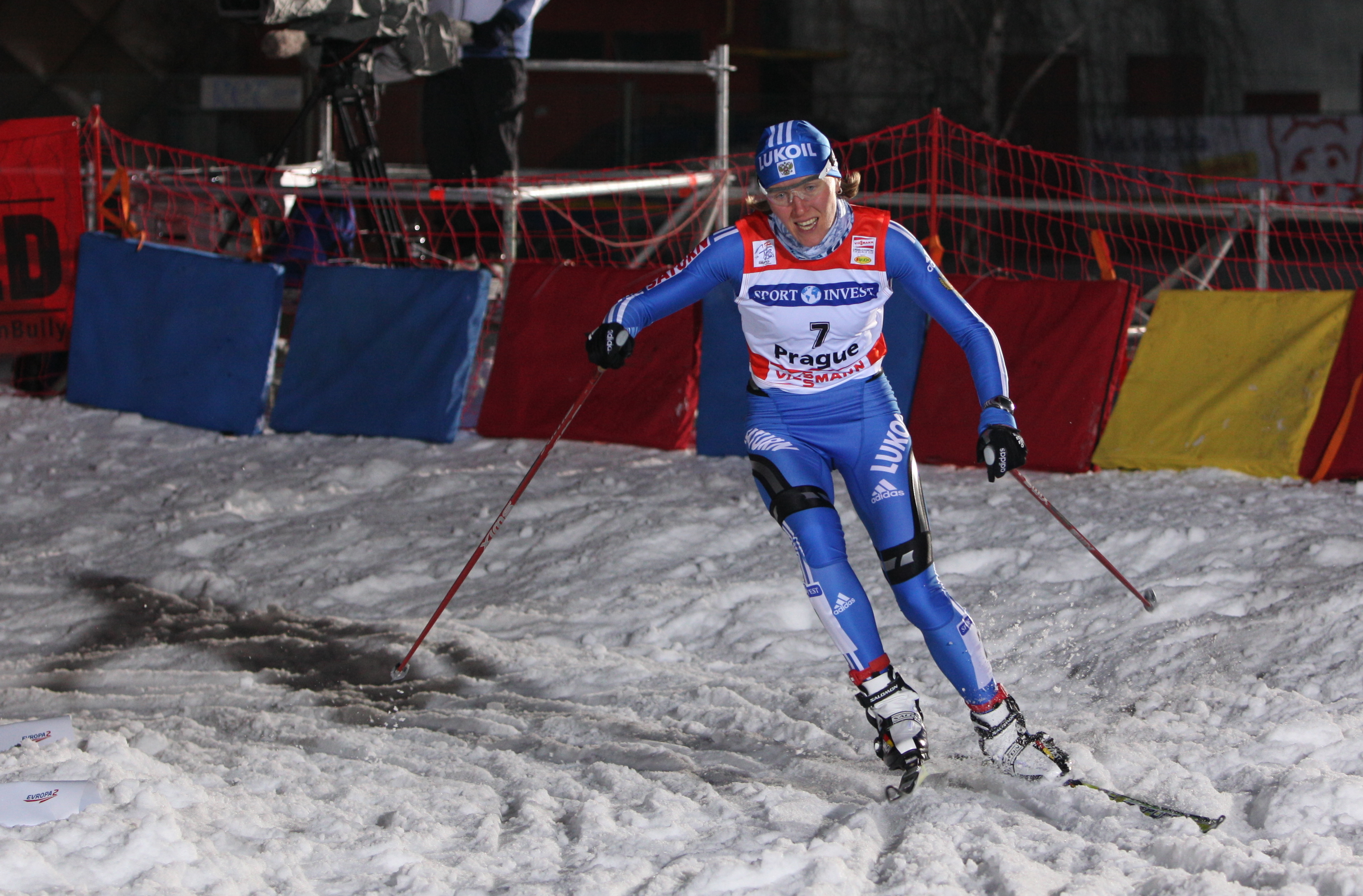 Olga Schuchkina competes at Ski Sprint Praha in 2010